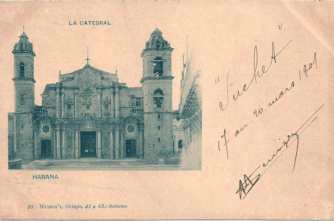 Postcard of the Cathedral of Havana (Cuba). Printed in 1900 in collotype by the Spanish press "Hauser y Menet, Madrid". This postcard was written in 1901. On the back reads: "UNIÓN POSTAL UNIVERSAL", "CUBA".